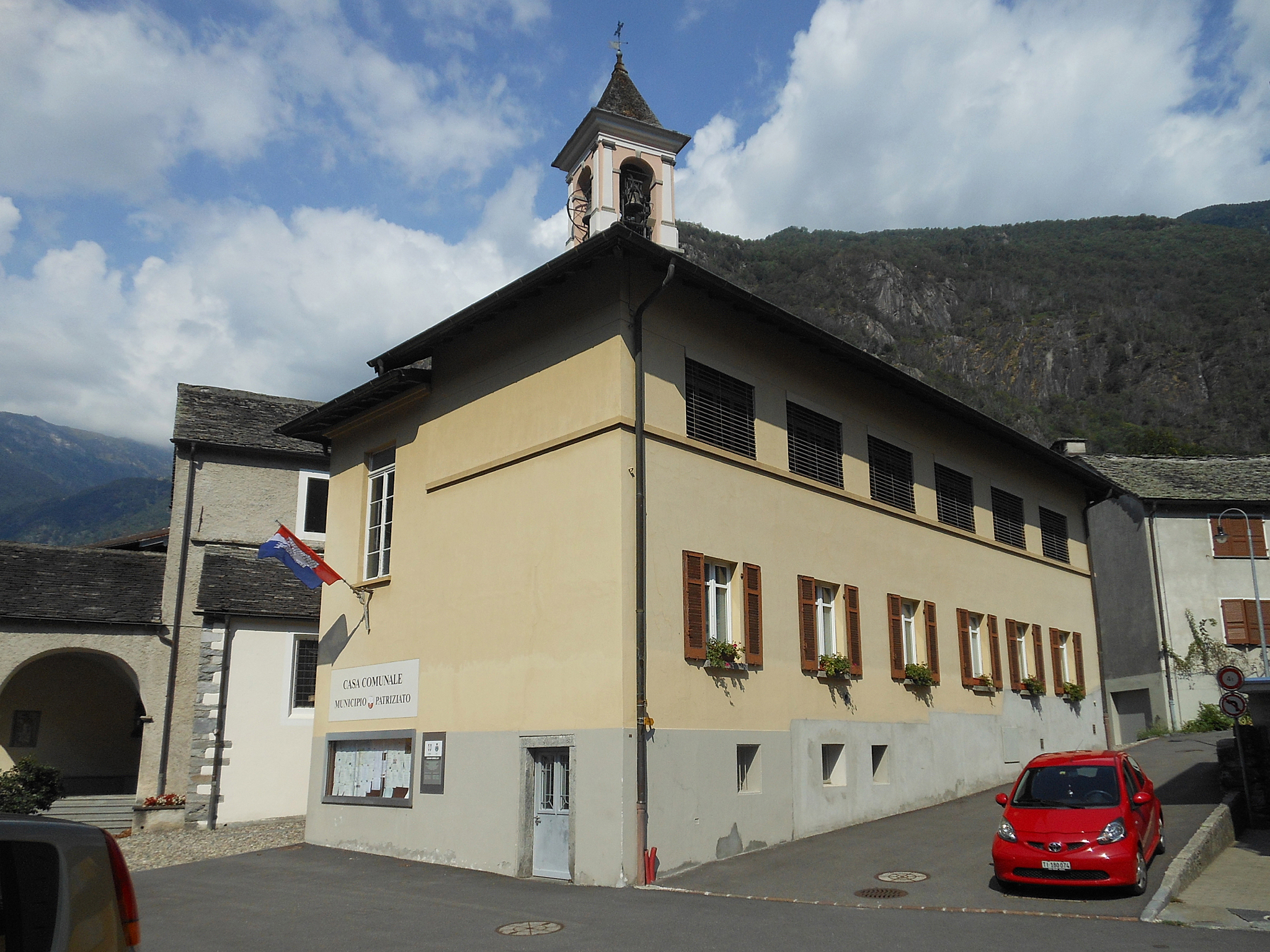 Town hall of Avegno.